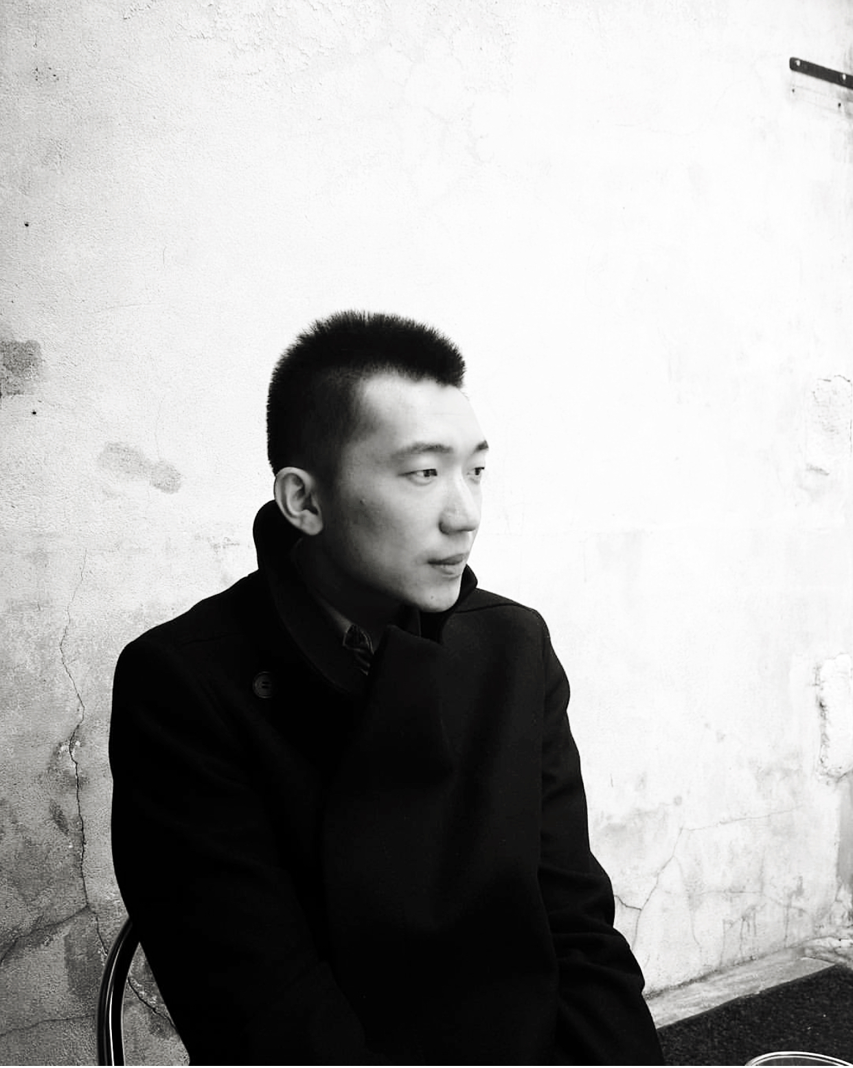 Lu Chao Profile